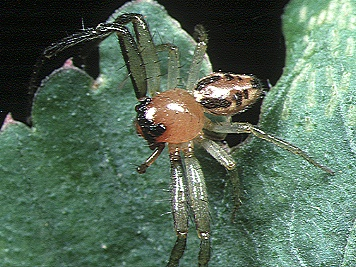 male Lysiteles miniatus from Okinawa.